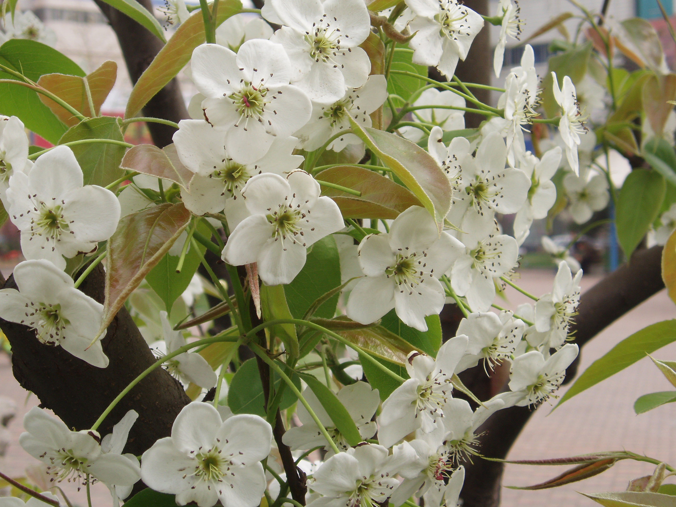 Ya pear flowers